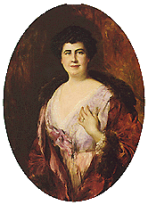 Portrait of Edith Bolling Galt Wilson (1872-1961)